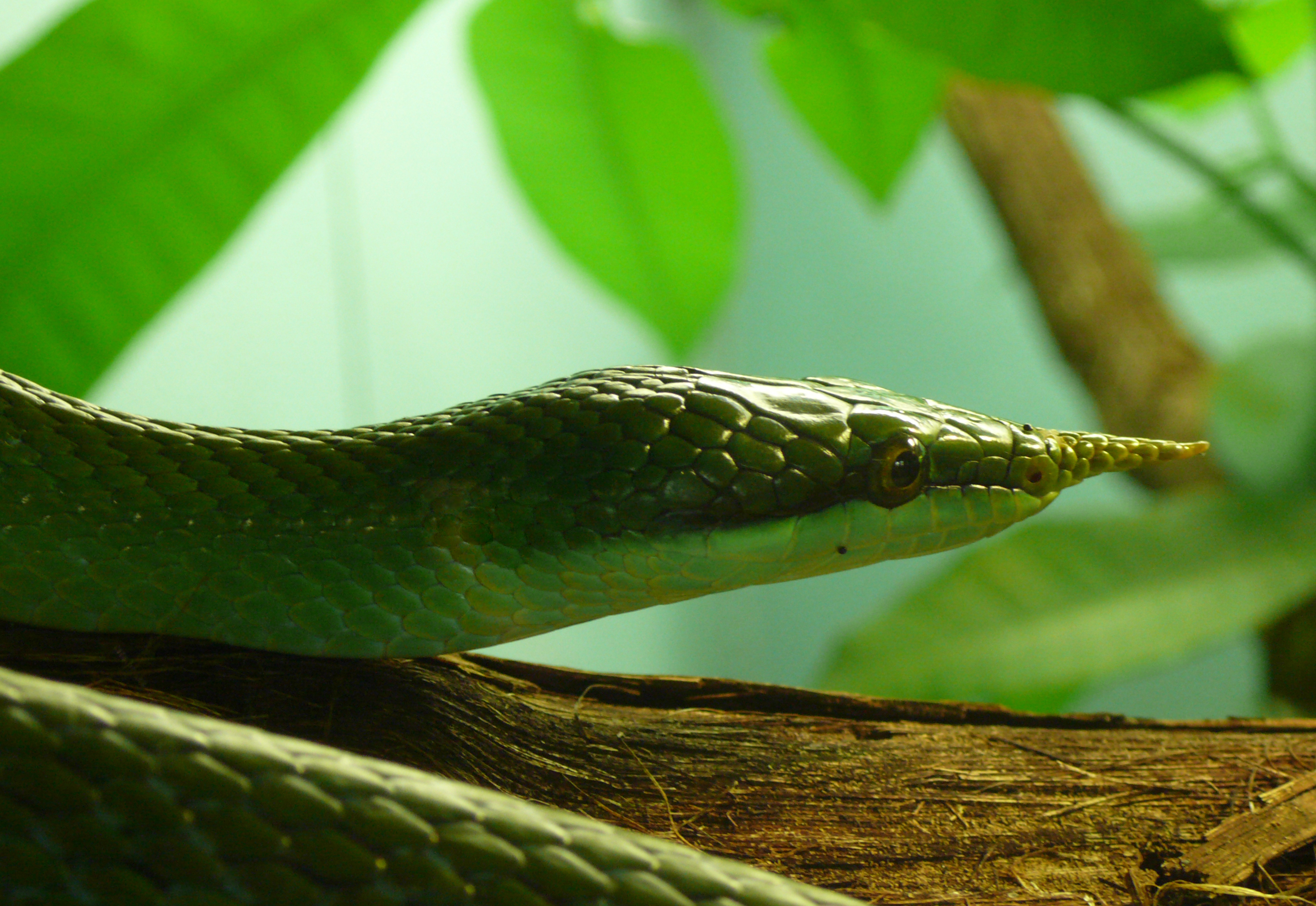 Vietnamese Long-Nosed Snake (Rhynchophis boulengeri)